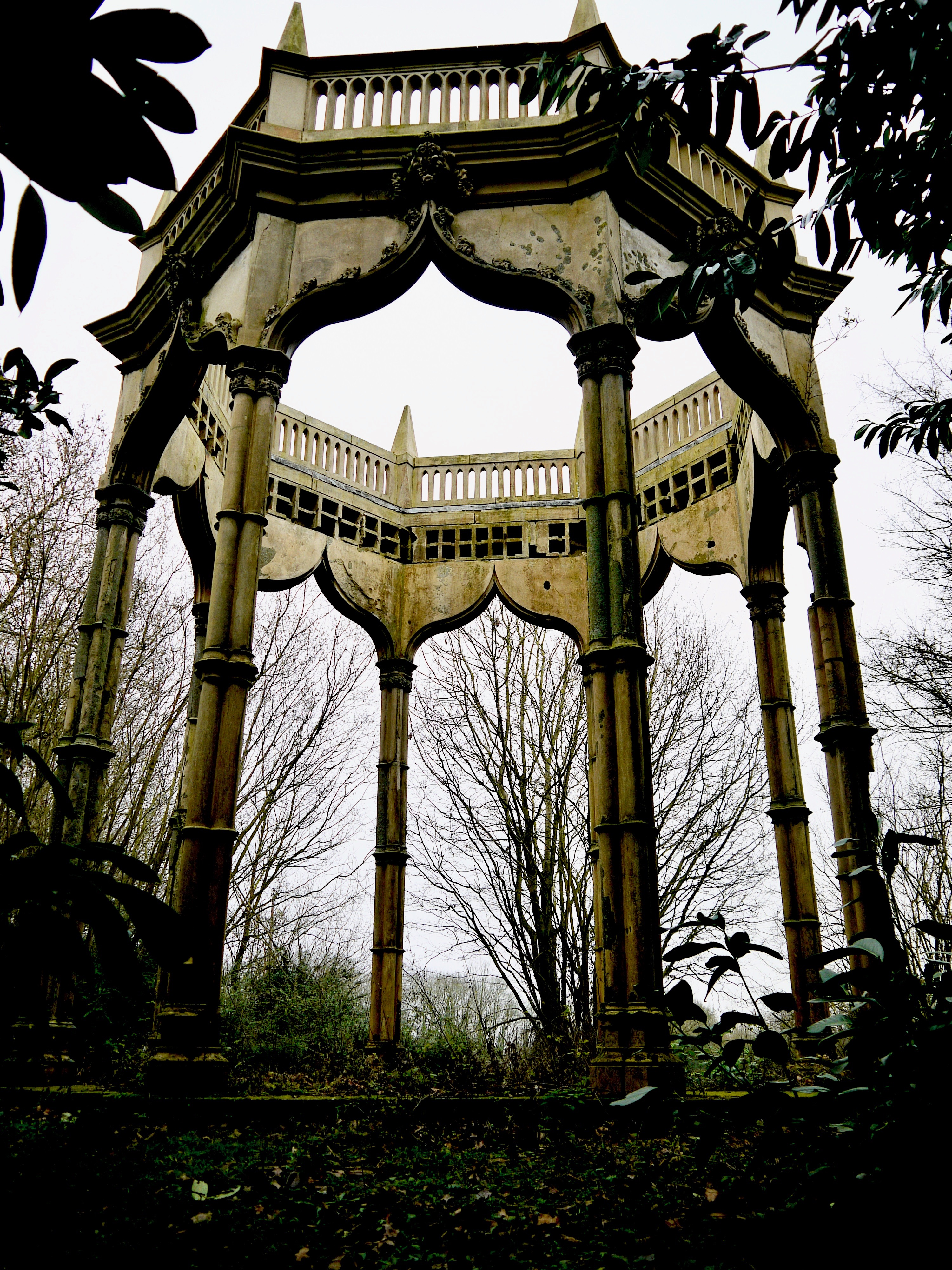 The Umbrello at Saxham Hall, a 19th century Moorish Temple